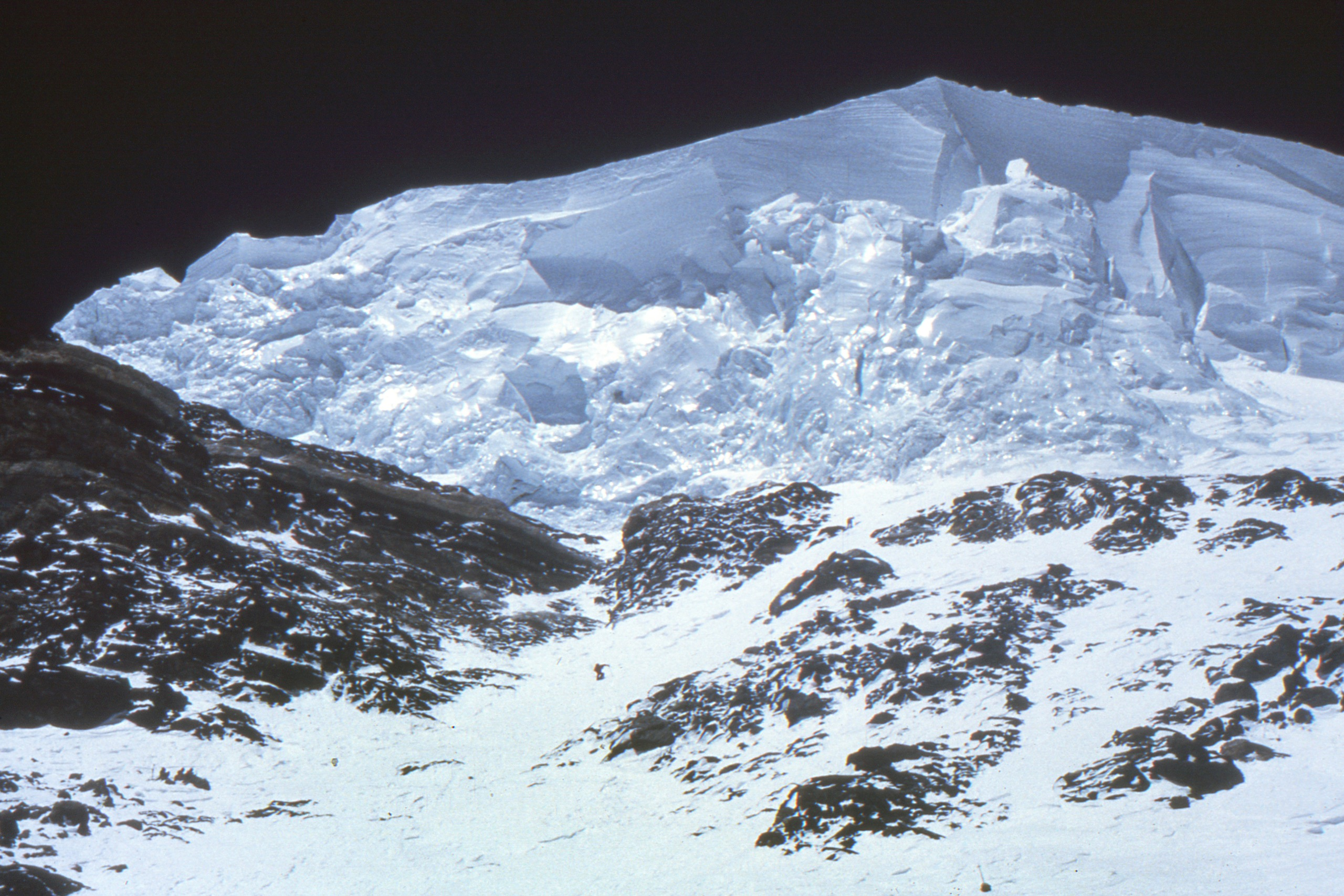 K2 - bottle neck scary view up to the hanging glacier